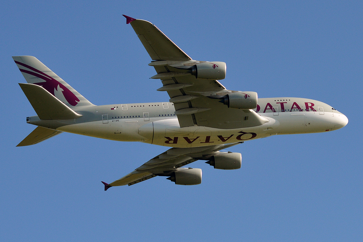 Qatar Airways, A7-APE, Airbus A380-861